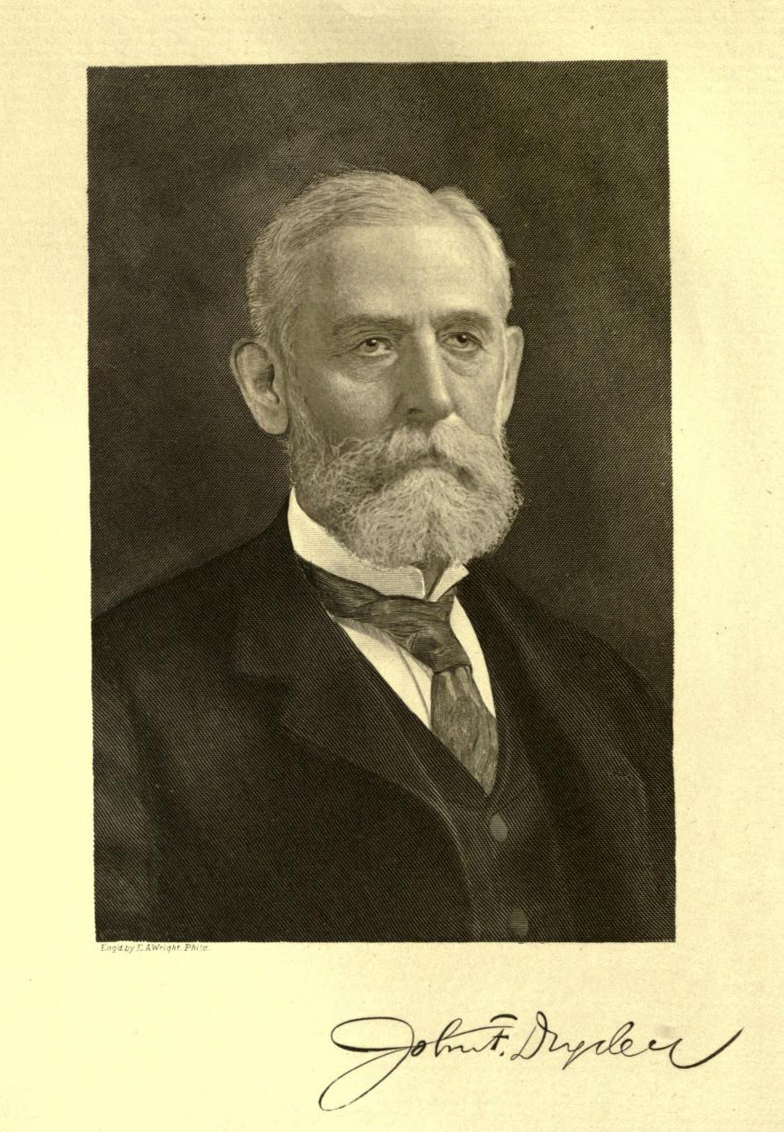 Image taken from: Addresses and papers on life insurance and other subjects (1909) Author: Dryden, John F. (John Fairfield), 1839-1911 Subject: Lincoln, Abraham, 1809-1865; Hamilton, Alexander, 1757-1804; Industrial life insurance; Insurance -- United States; Panama Canal (Panama) Publisher: Newark, N.J. : The Prudential insurance company of America Possible copyright status: NOT_IN_COPYRIGHT Language: English Call number: SRLF:LAGE-1118054 Digitizing sponsor: MSN Book contributor: University of California Libraries Collection: cdl; americana